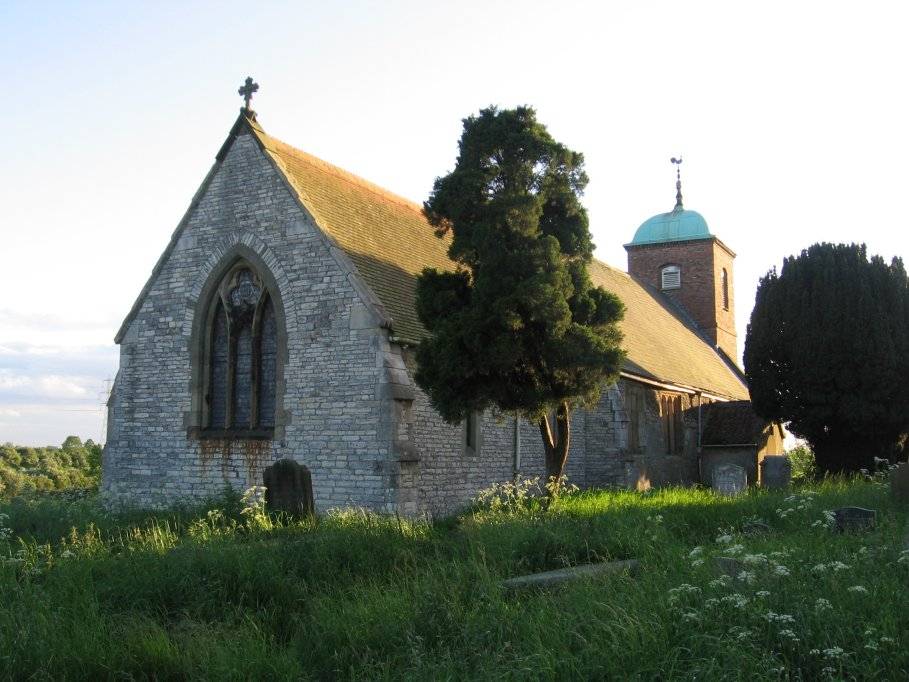 St. Helen's Church, Barmby on the Marsh, East Riding of Yorkshire, England.